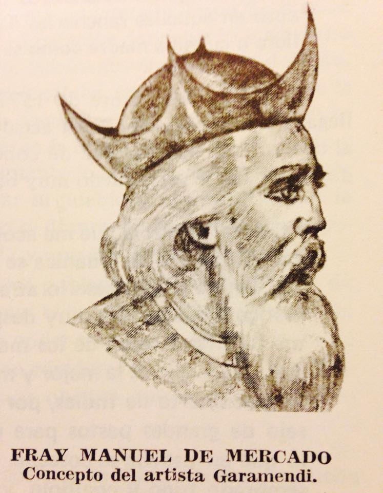 (Concepto del artista Garamendi)